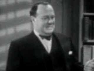 Harrison Greene in the public domain movie Mr. Boggs Steps Out (1938).